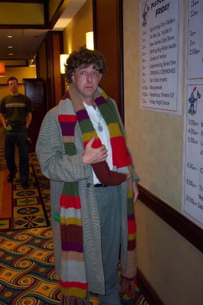 A Doctor Who fan in a Fourth Doctor costume, at the Gallifrey 2006 convention in Los Angeles.